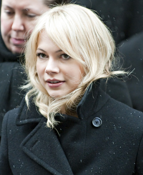 American actress Michelle Williams leaving the press conference for the film Shutter Island in the snow.